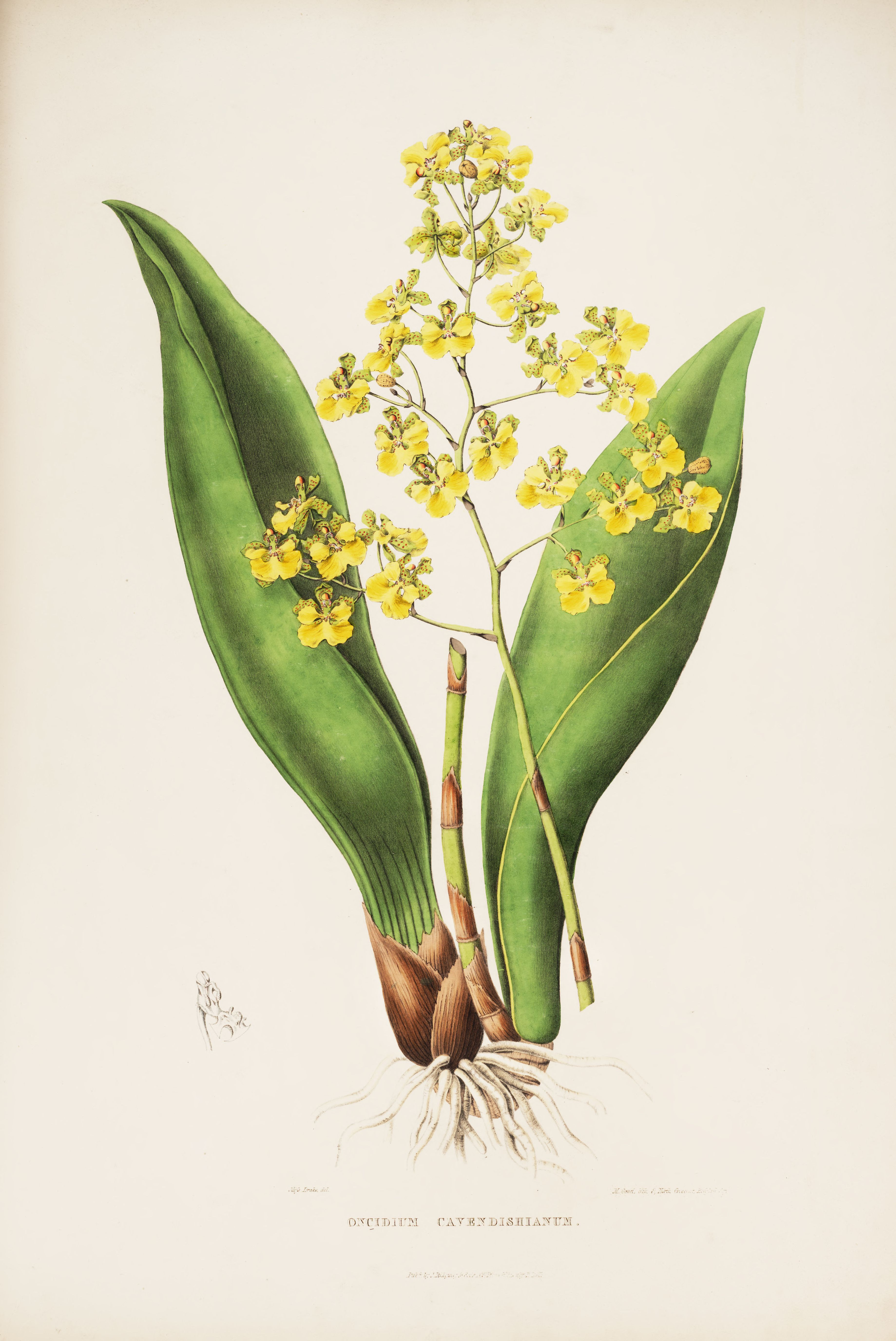 Illustration of Trichocentrum cavendishianum (as syn. Oncidium cavendishianum)